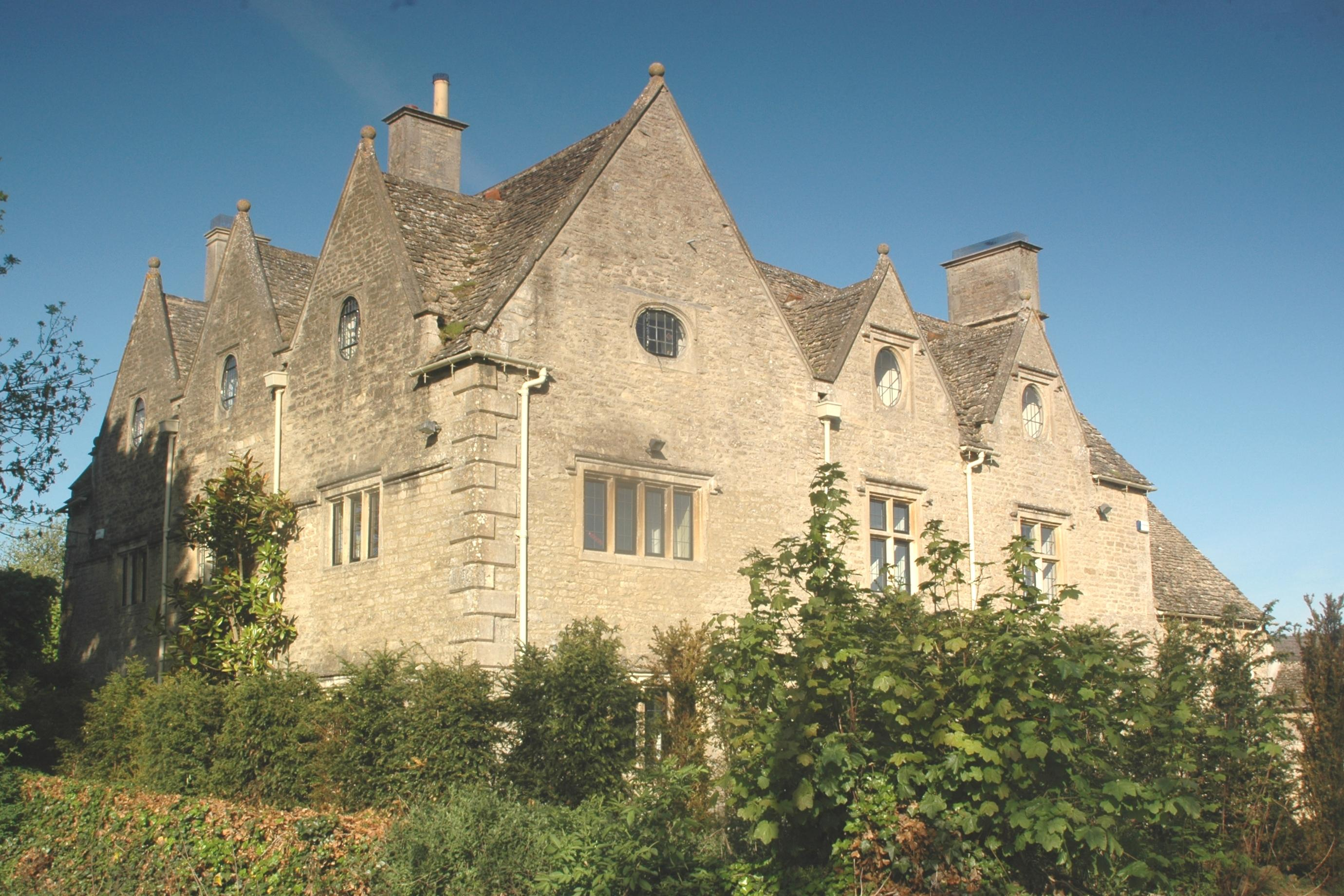 17th century manor house at FInstock, Oxfordshire, built 1660: view from the southeast